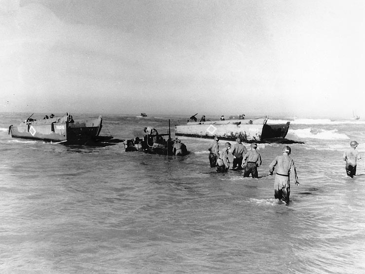 U.S. Navy LCVPs from USS Joseph T. Dickman (APA-13) landing vehicles through the surf at Gela, Sicily, on 10-12 July 1943. The truck in the center appears to have stalled.